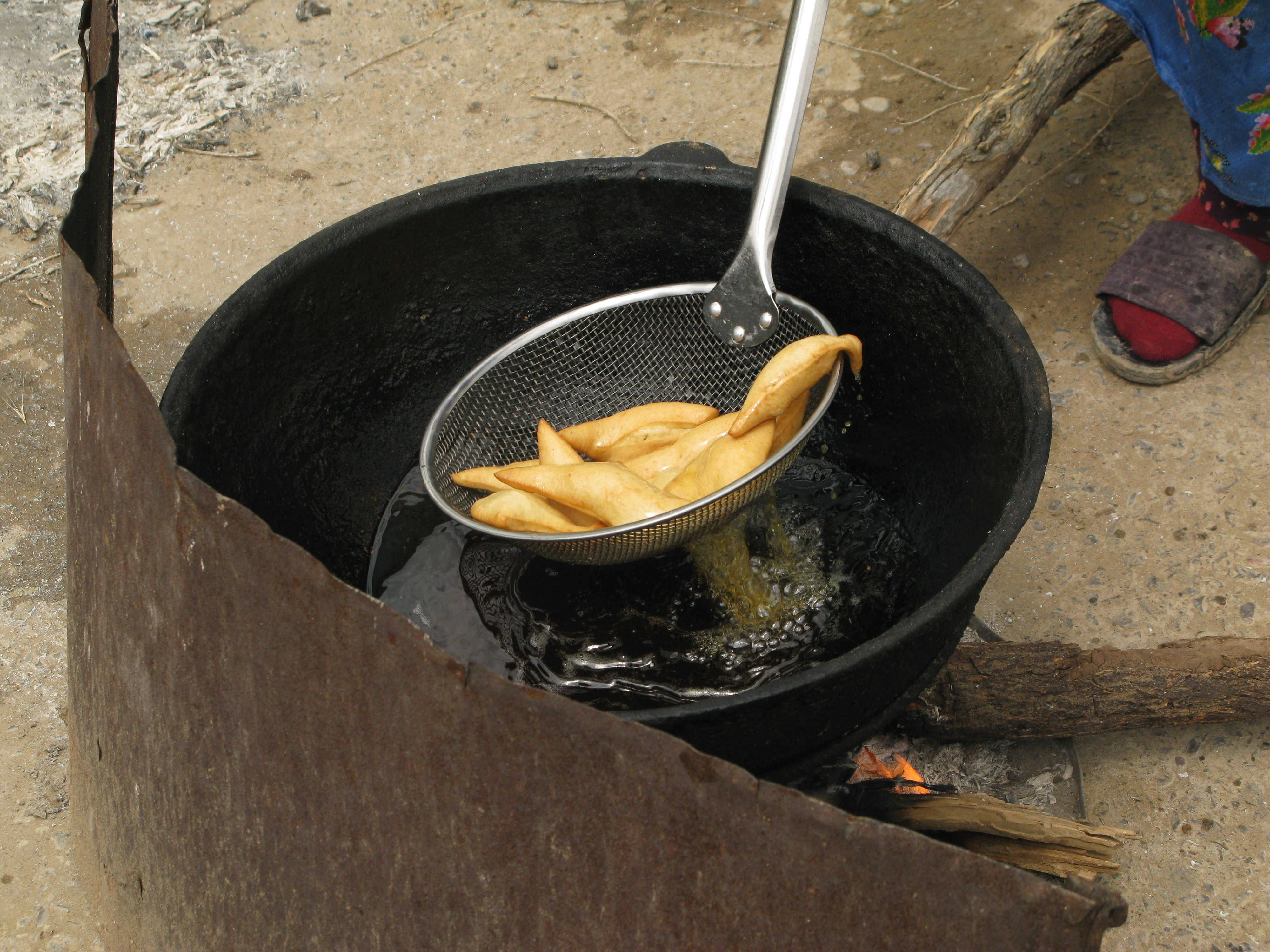 Traditional fried bread served in Erbent, Turkmenistan